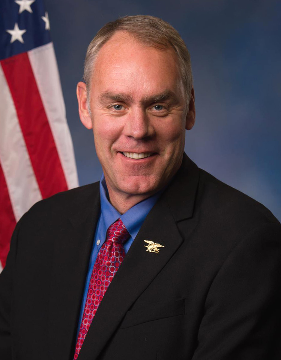 Official portrait of Congressman Ryan Zinke (R-MT)